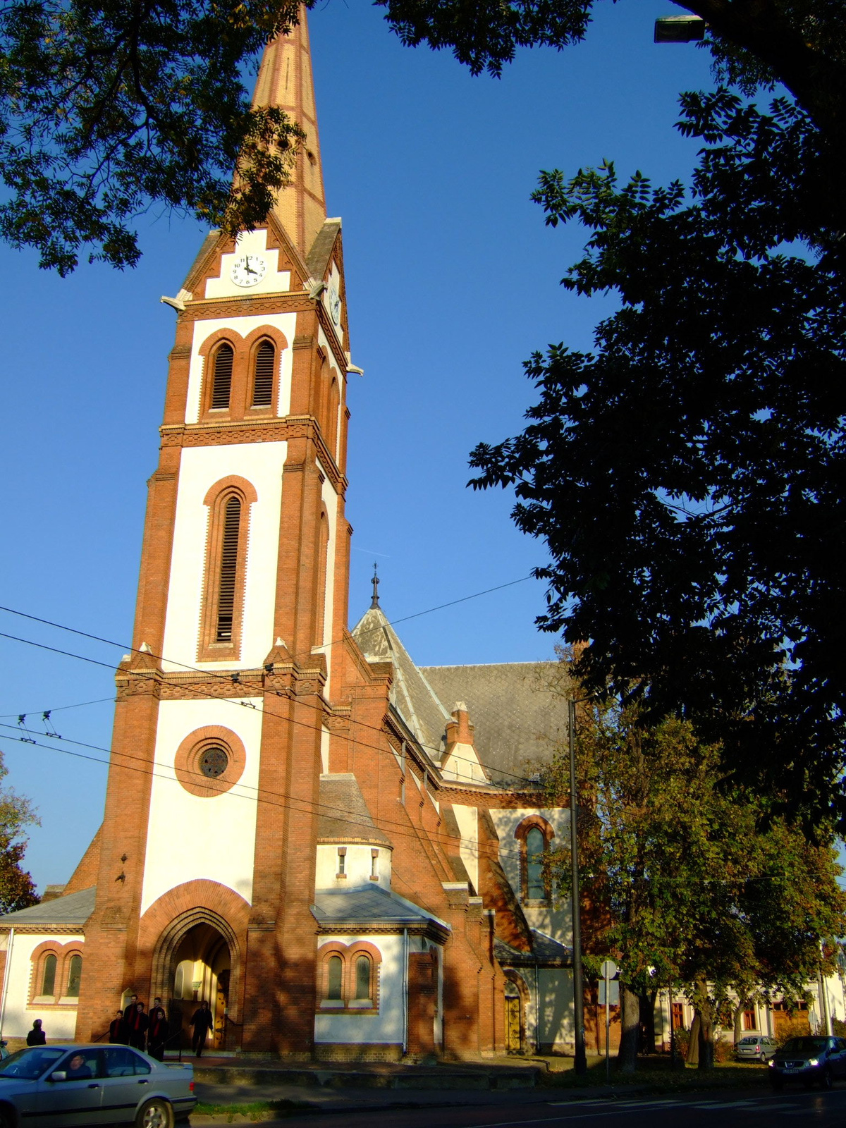 Veres (Red) Church (Debrecen, Kossuth street, 65) This is a photo of a monument in Hungary. Identifier: 11160